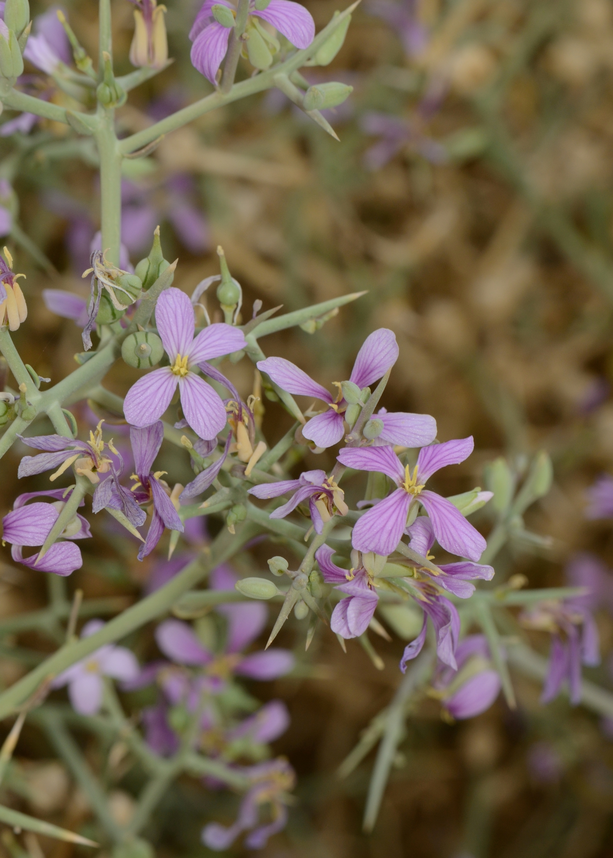 Zilla spinosa (L.) Prantl, Nahal Roded, Eilat Mountains, Israel, January 17, 2013.